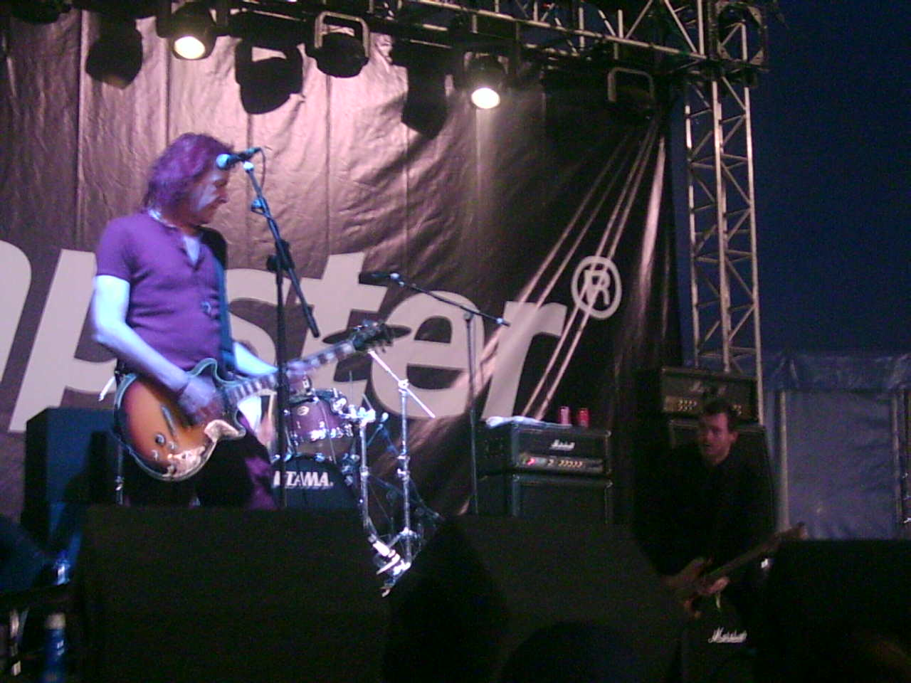 The Saints performing at the Download Festival (on the smaller "Napster Stage"), England, 2005